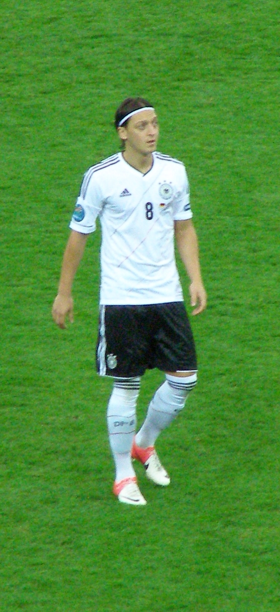 Gdańsk - PGE Arena - Euro 2012 - quarter final match Germany - Greece - Mesut Özil